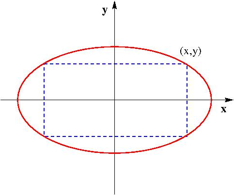 Figure to illustrate use of Lagrange multiplier for determining max. area of rectangle inscribed in an ellipse.